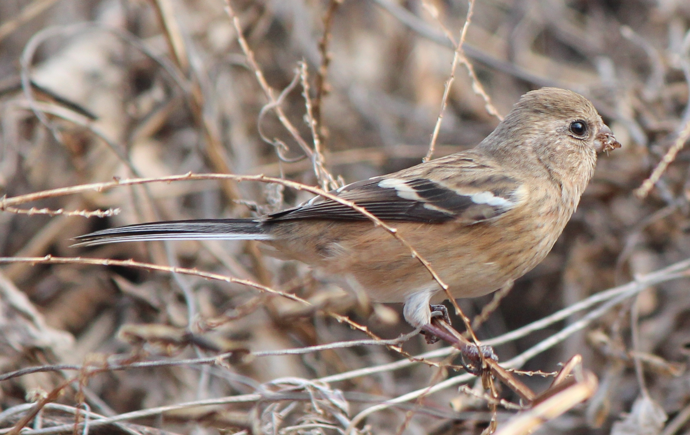 Long-tailed Rosefinch (Uragus sibiricus sanguinolentus), female eating seed, in Aichi prefecture, Japan.